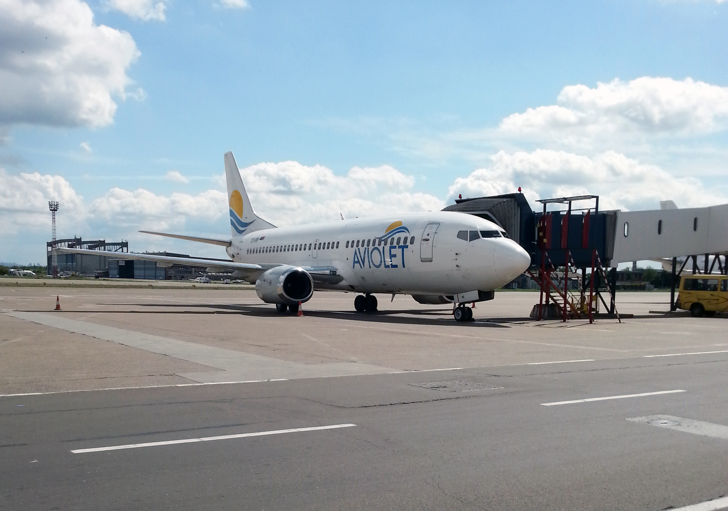 Aviolet Boeing 737-300 at airport Nikola Tesla, Beograd, Serbia.